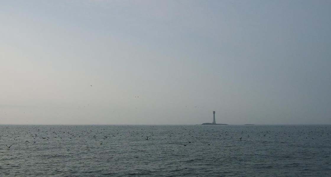 Smalls lighthouse as taken from a few miles away by Catherine Davis (contact c/o )